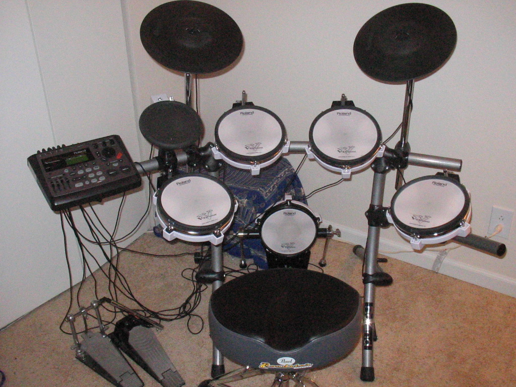 $1500 OBO w/ Roadster D-2000 Throne $1400 OBO w/o Roadster D-2000 Throne Both include free Tama Bass Drum pedal